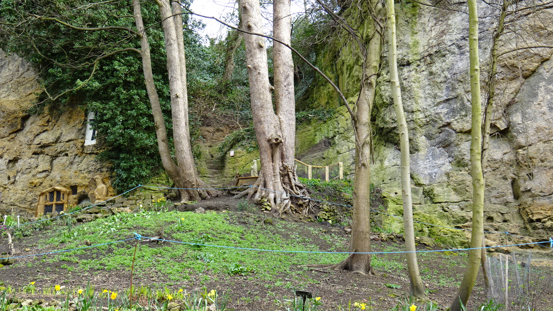 The Chapel of Our Lady of the Crag & Garden, Knaresborough, North Yorkshire, England. A Marian shrine.